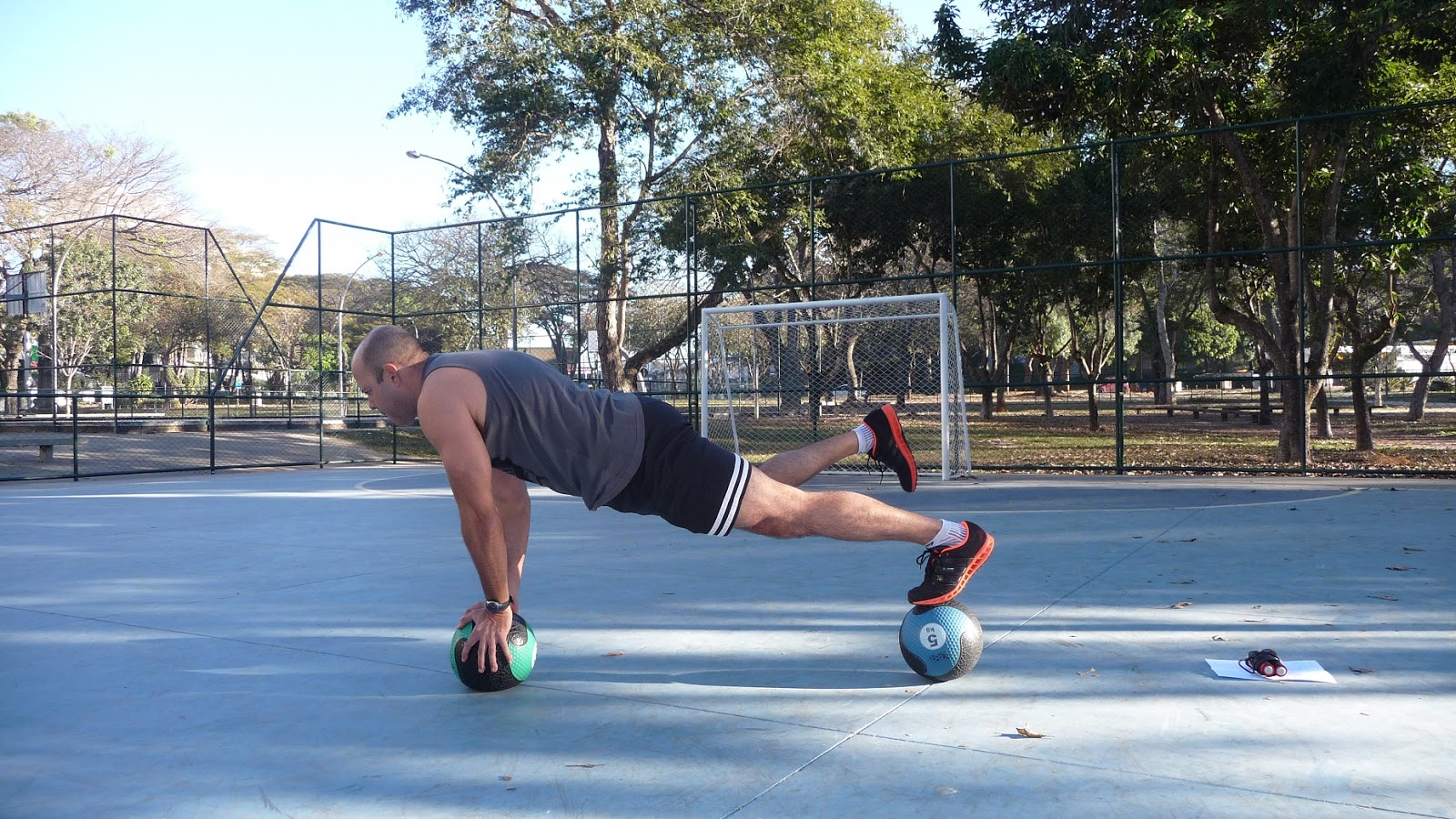 Medicine ball plank